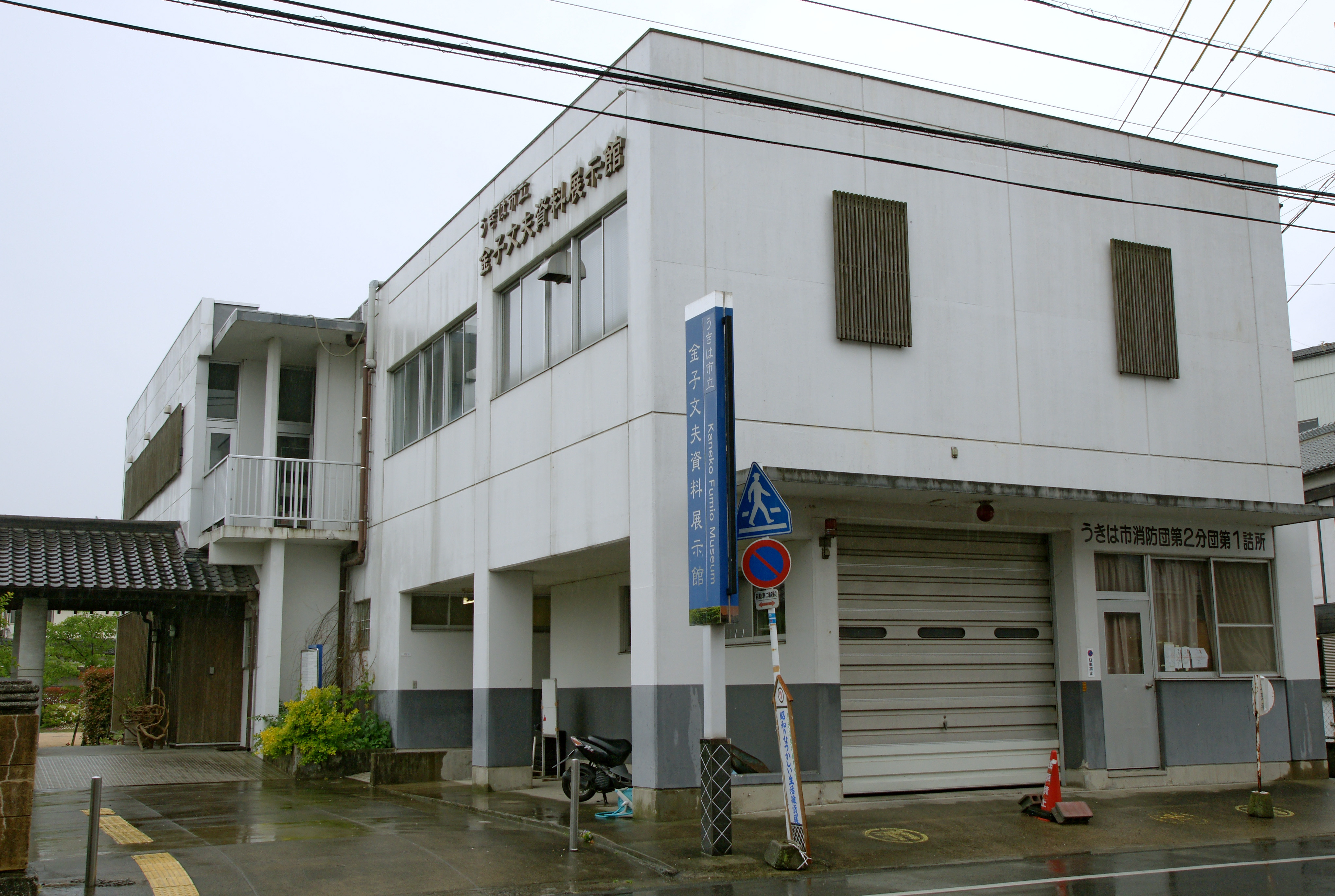 Kaneko Fumio Museum, Ukiha, Fukuoka prefecture, Japan